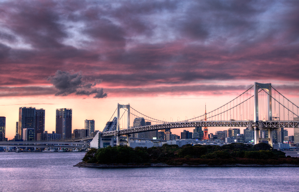 Rainbow Bridge, Tokyo